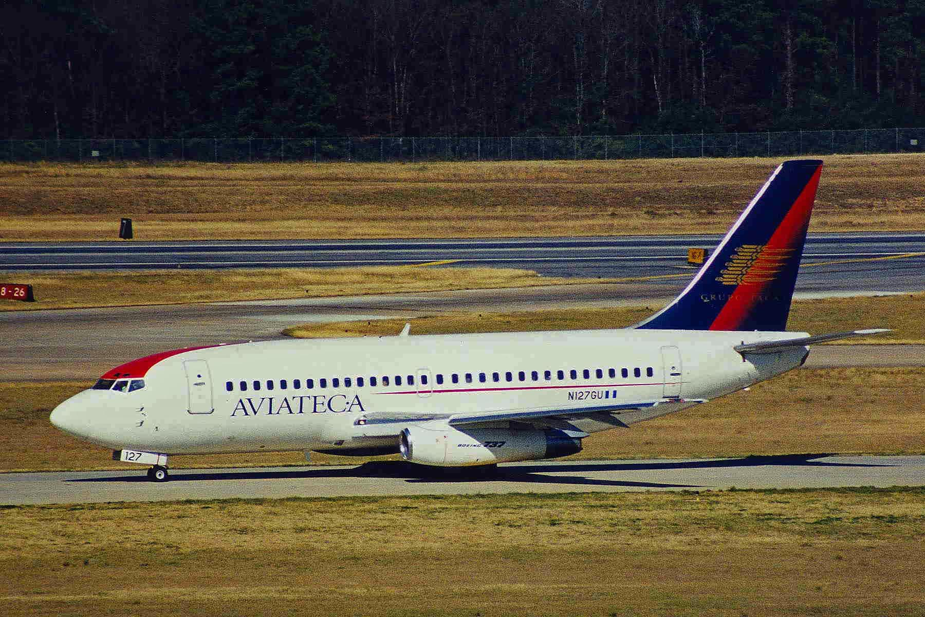 A picture of an airplane